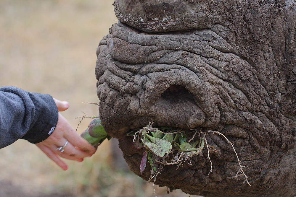 My 13 year-old daughter feeds this huge male Black Rhino at the Ol Pejeta Conservancy, Kenya.